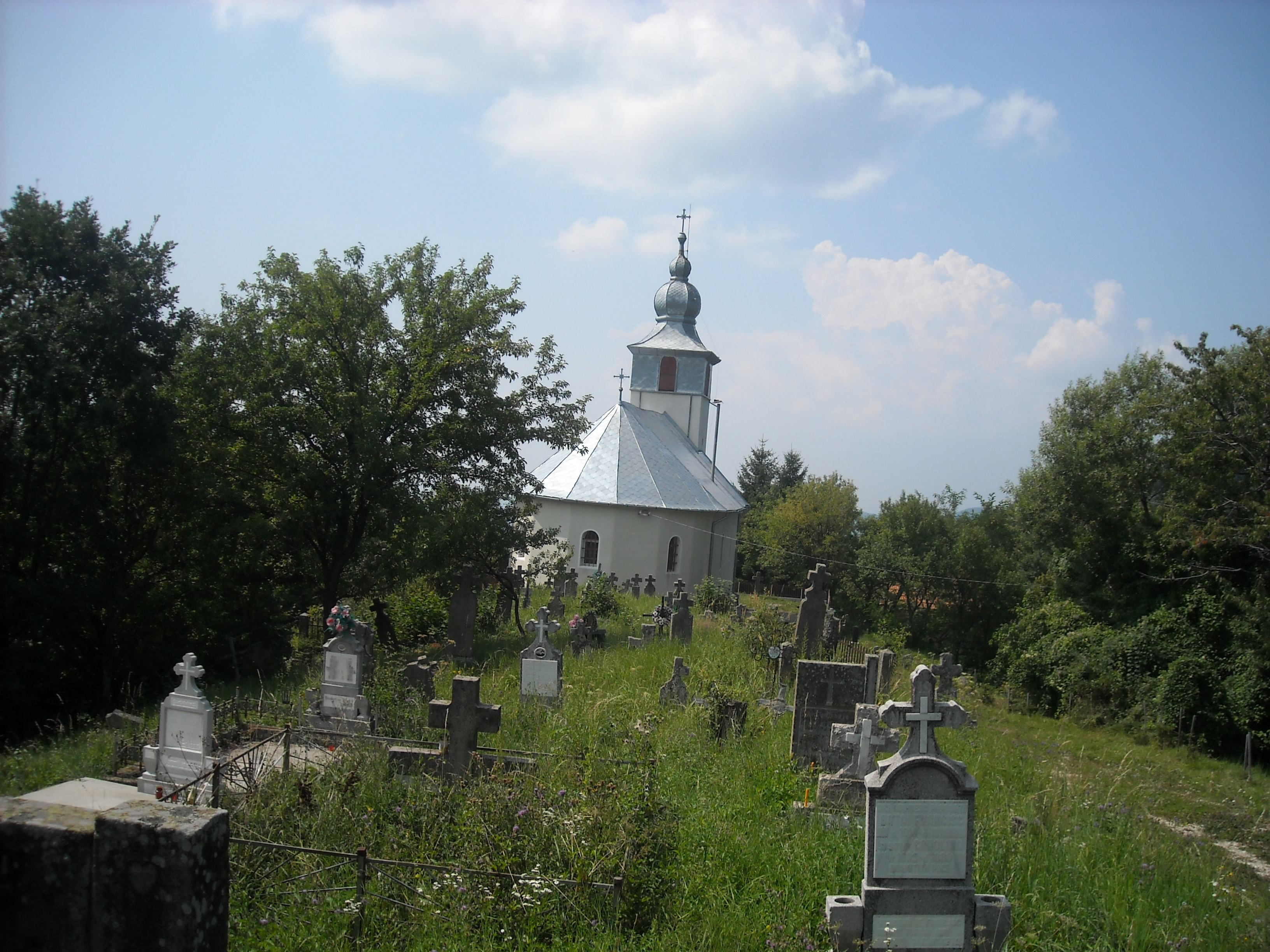 Orthodox church and graveyard in Săcărâmb, Romania